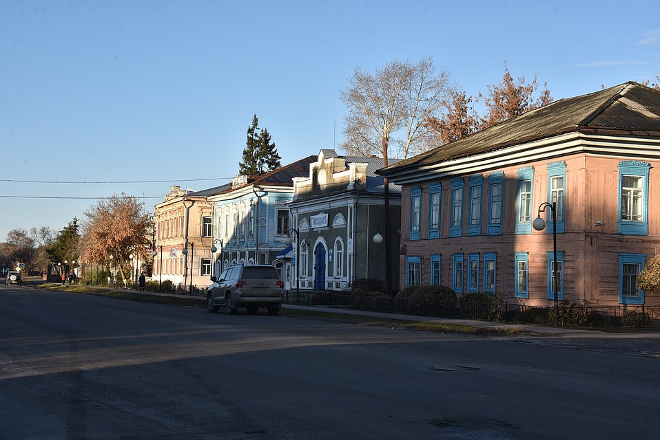 Vengerovo. Lenina Street